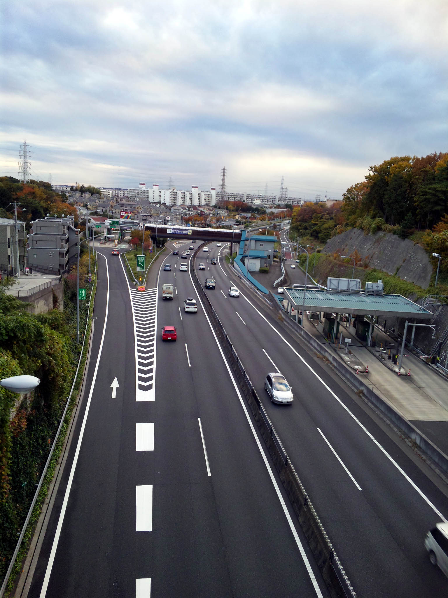 Yokohama Shindo KAWAKAMI IC